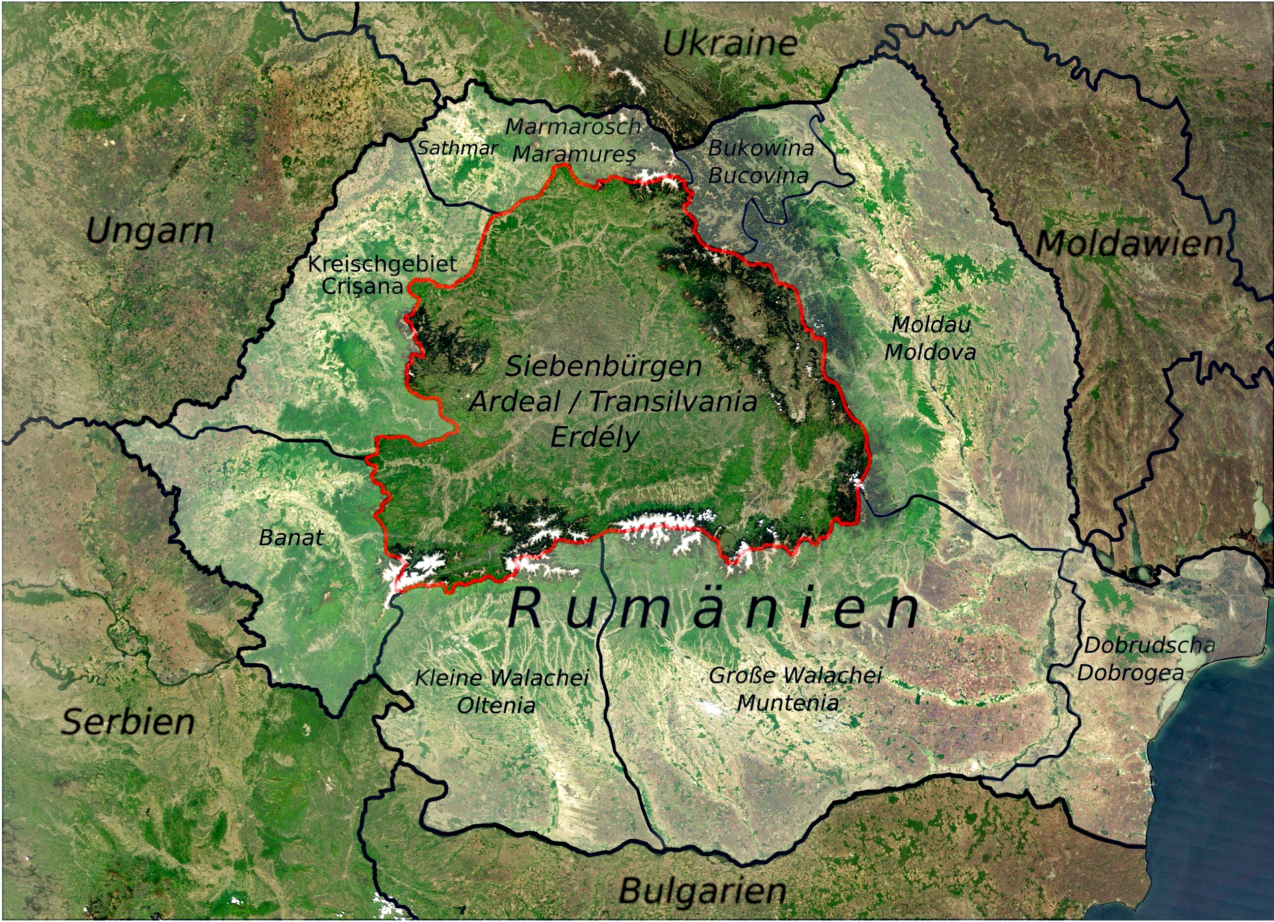 The region of (historic) Transylvania in today's Romania